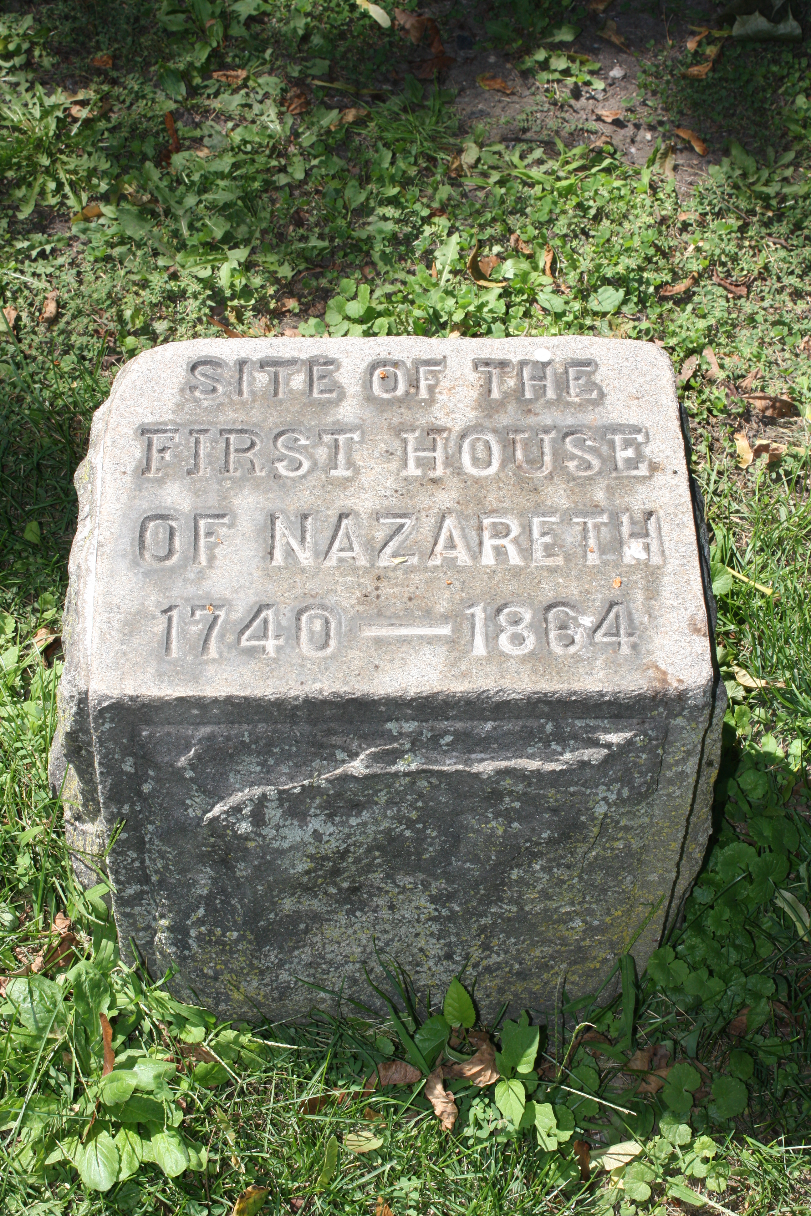 Stone on the site of First House of Nazareth (1740-1864) on Whitefield House and Gray Cottage historical park.